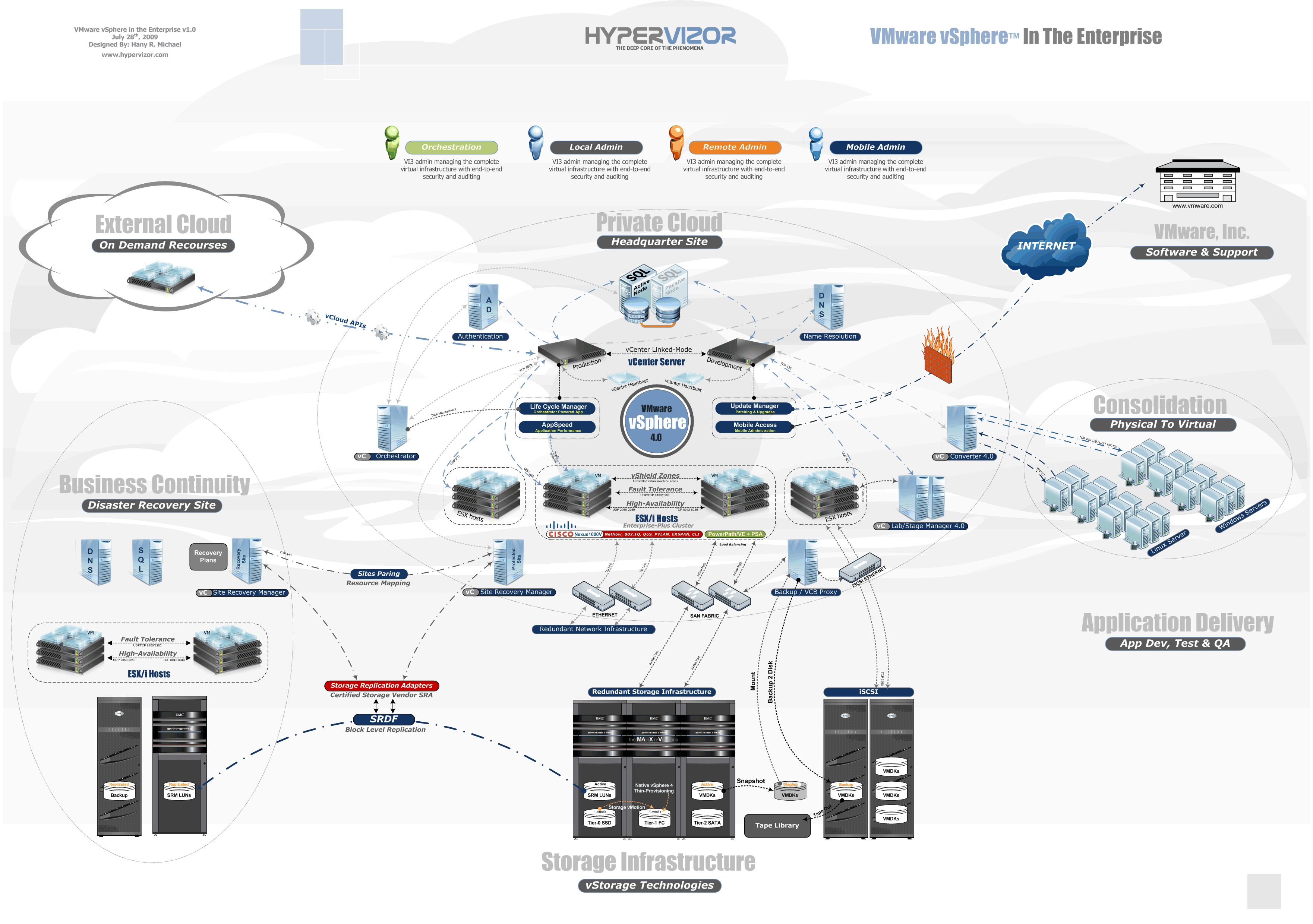 VMware vSphere in the Enterprise diagram, version 1.0